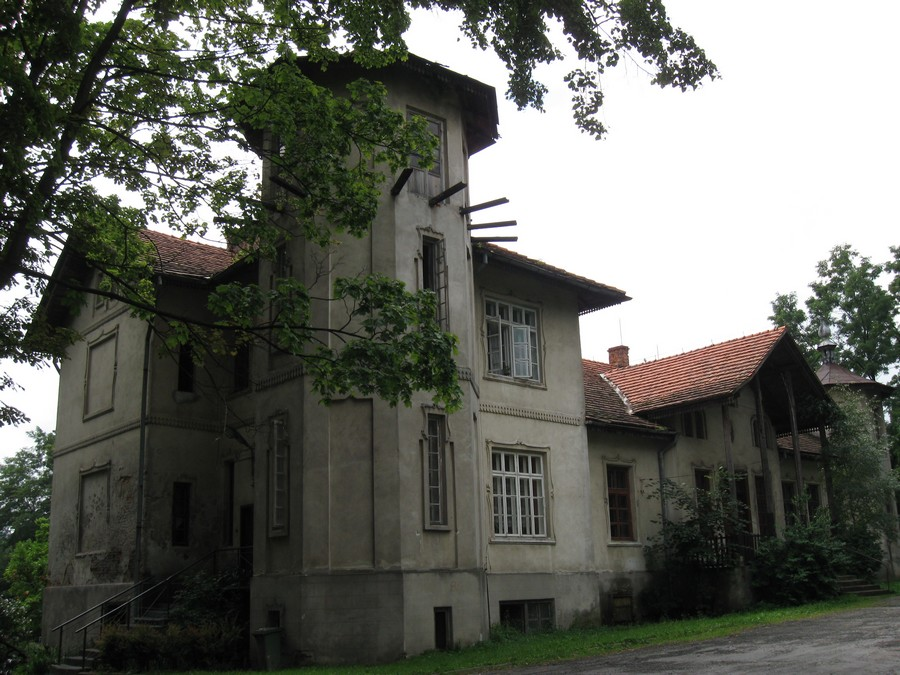 Manor in Kopytówka